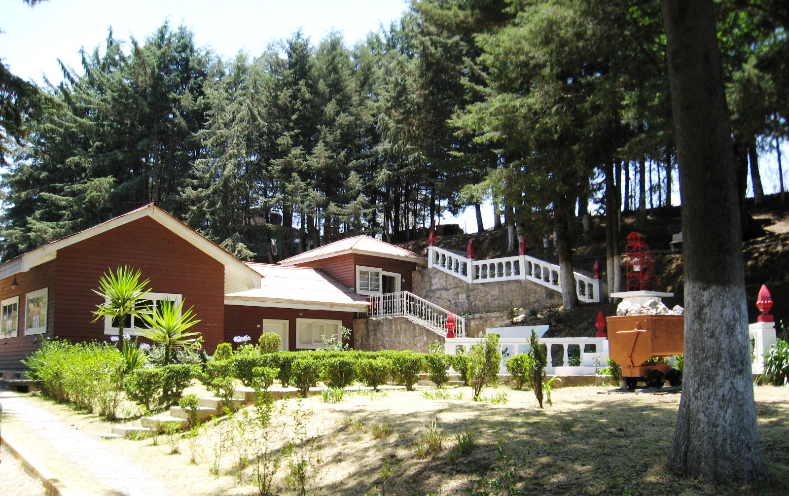 One of the buildings at the Mining Museum in El Oro, Mexico State, Mexico